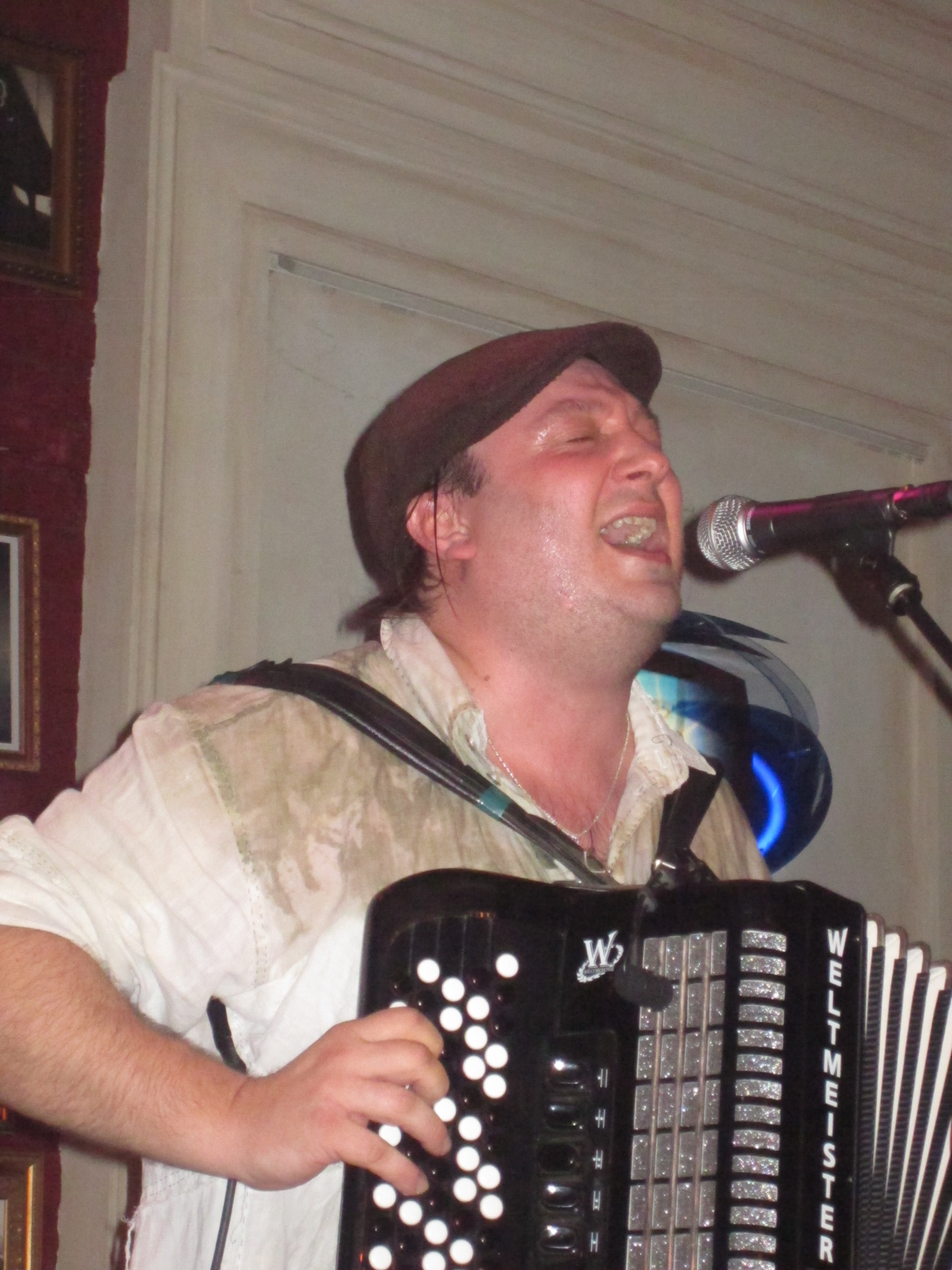 Anton Matezius (Billy's Band)